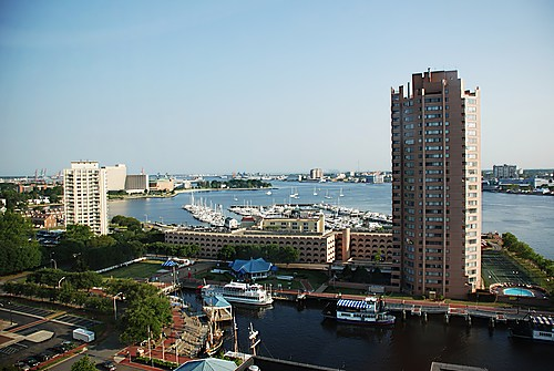 A view of the downtown harbor from Portside.